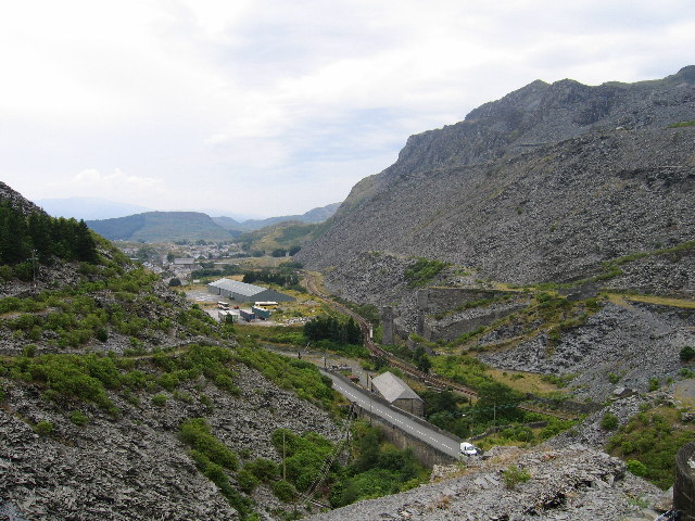 View from top of Llechwedd Slate Quarry of the A470 road to Ffestiniog and the piers of a dismantled part of the Ffestiniog railway. On the right is the spoil heap of the Gloddfa Ganol Slate Mine.